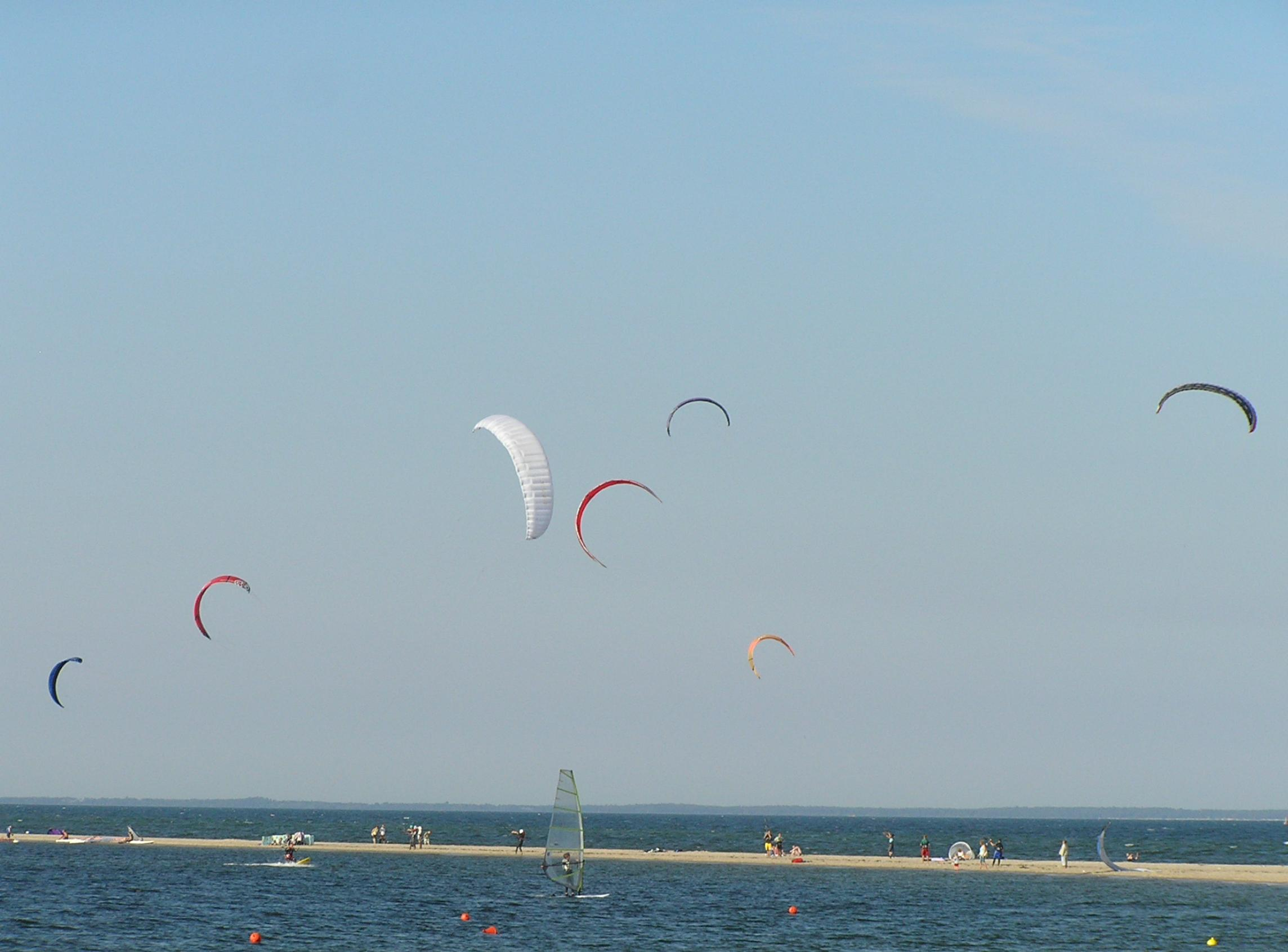 Kitesurfers in Rewa